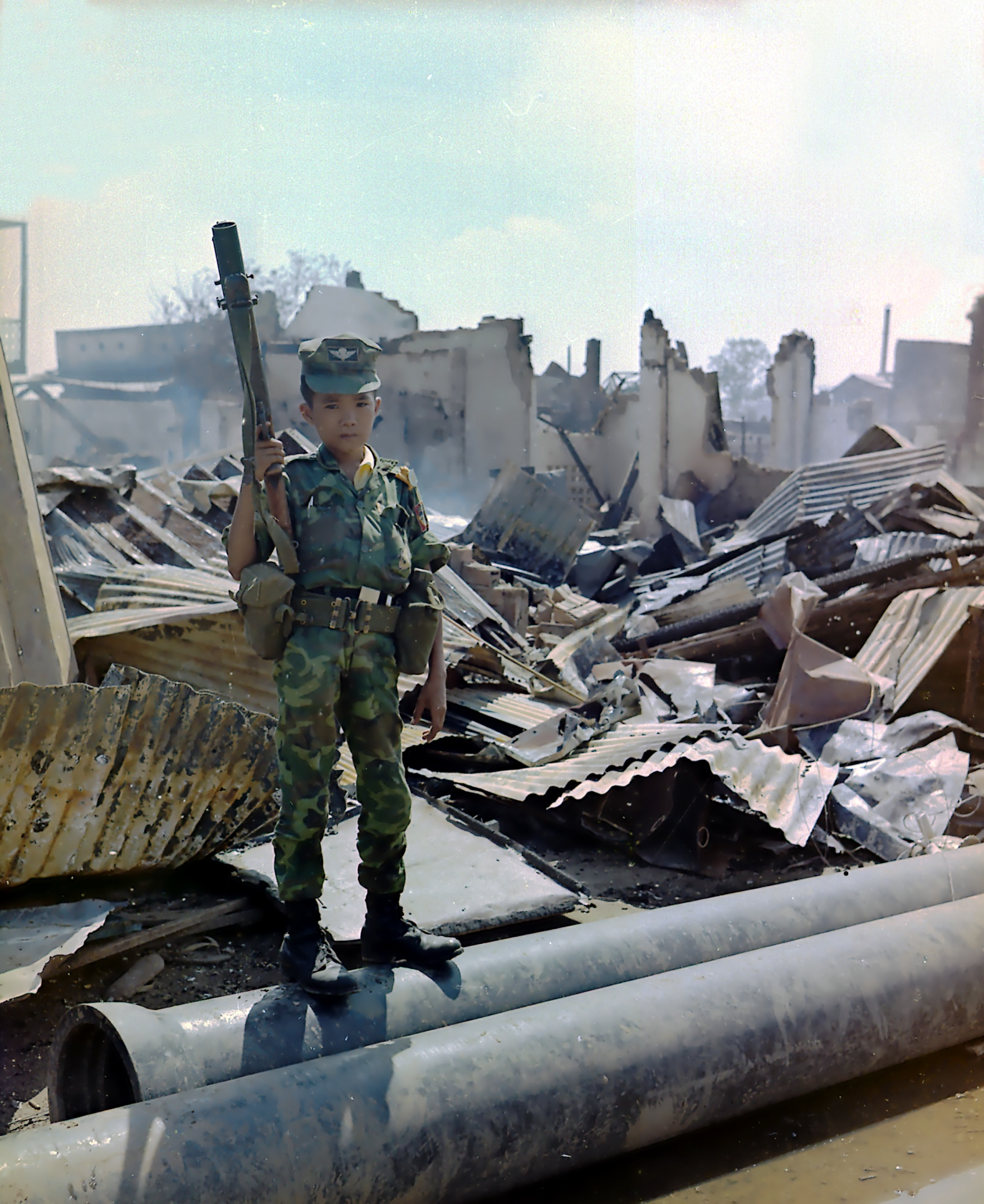 Tan Son Nhut, Vietnam. This twelve year old ARVN Airborne trooper with M-79 grenade launcher accompanied the Airborne Task Force Unit on a sweep through the devastated area surrounding the French National Cemetery on Plantation Road after a day long battle there. The young soldier has been "adopted" by the Airborne Division.